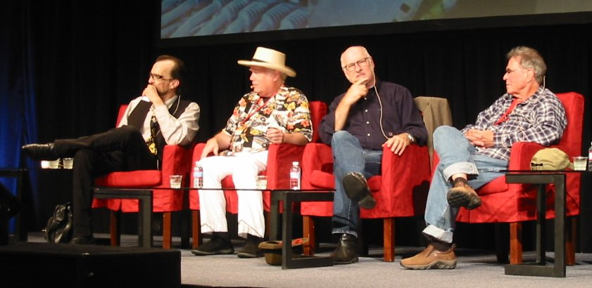 Panel discussion at the Audio Engineering Convention in San Francisco, October 27, 2012. Panel title: Legendary Artists: Sounds of San Francisco. Panelists: Mario Cipollina, Peter Albin, Joel Selvin, Country Joe McDonald. Not pictured: moderator David "Mr Bonzai" Goggin.